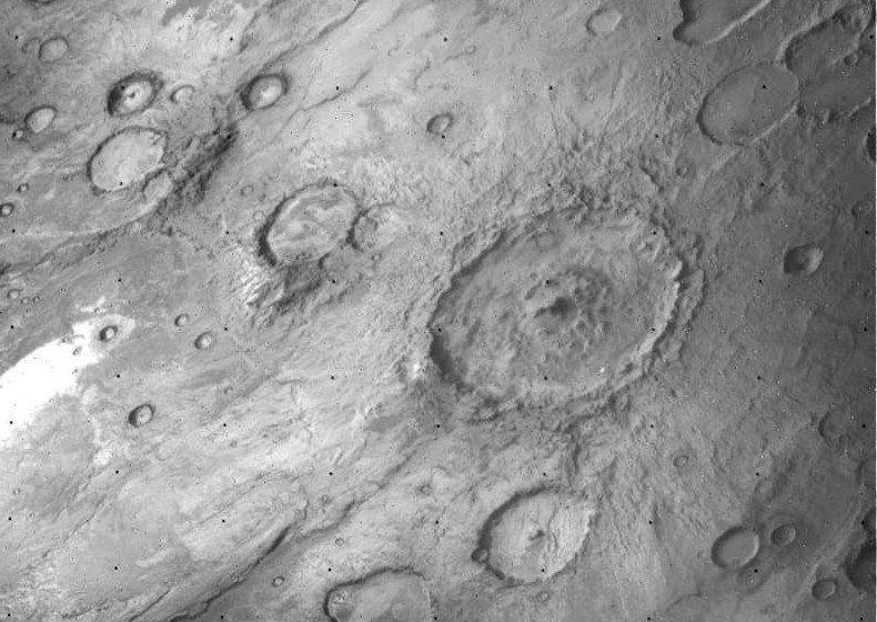 Liu Hsin crater (right of center) on Mars. Viking Orbiter 1, camera A (088A23), with violet filter. Cropped from original. Resolution about 408 m/pixel. Emission Angle: 46 Incidence Angle: 79.5 Latitude: -52.0 Longitude: 187.9 Phase Angle: 105.8